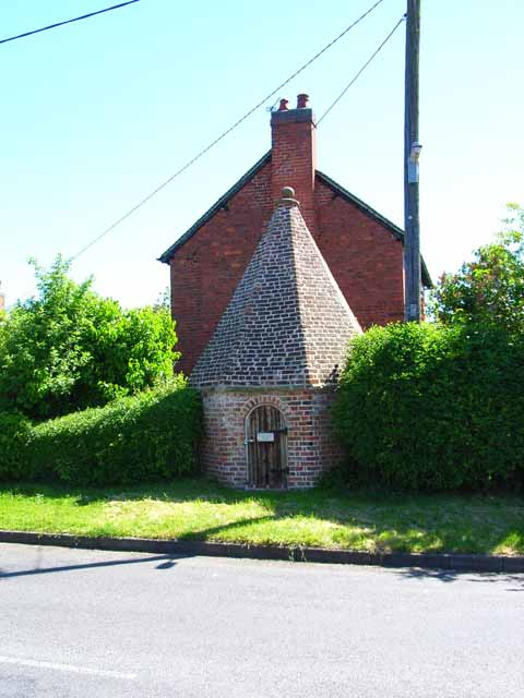 The village lockup, Packington. An 18th century structure which has been carefully restored.